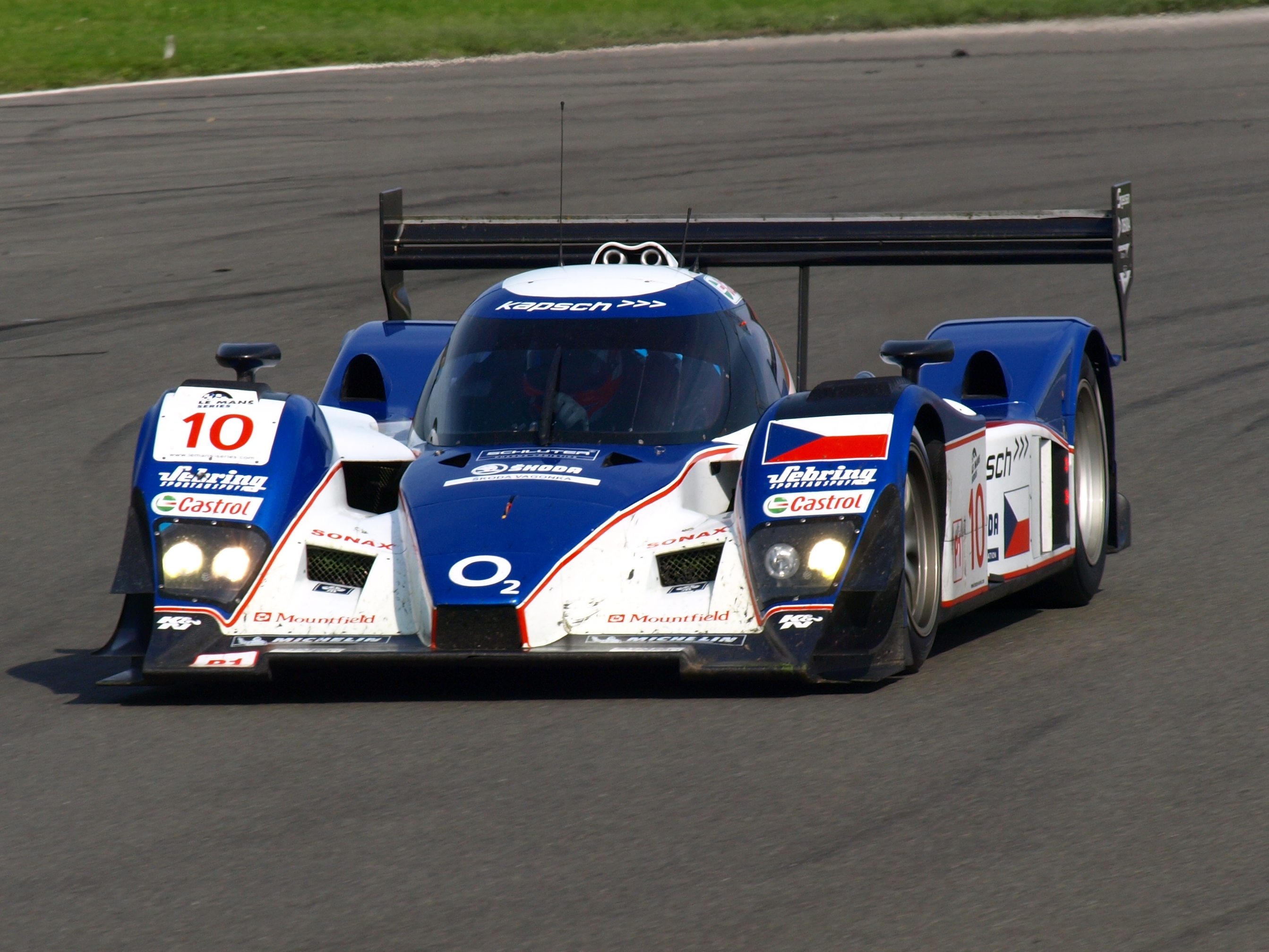 Jan Charouz driving a Charouz Racing System's Lola B08/60-Aston Martin at the 2008 1000km of Silverstone.